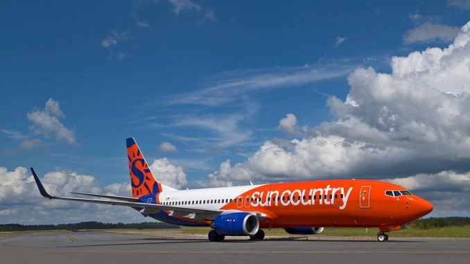 Newest Sun Country livery, December 2018.